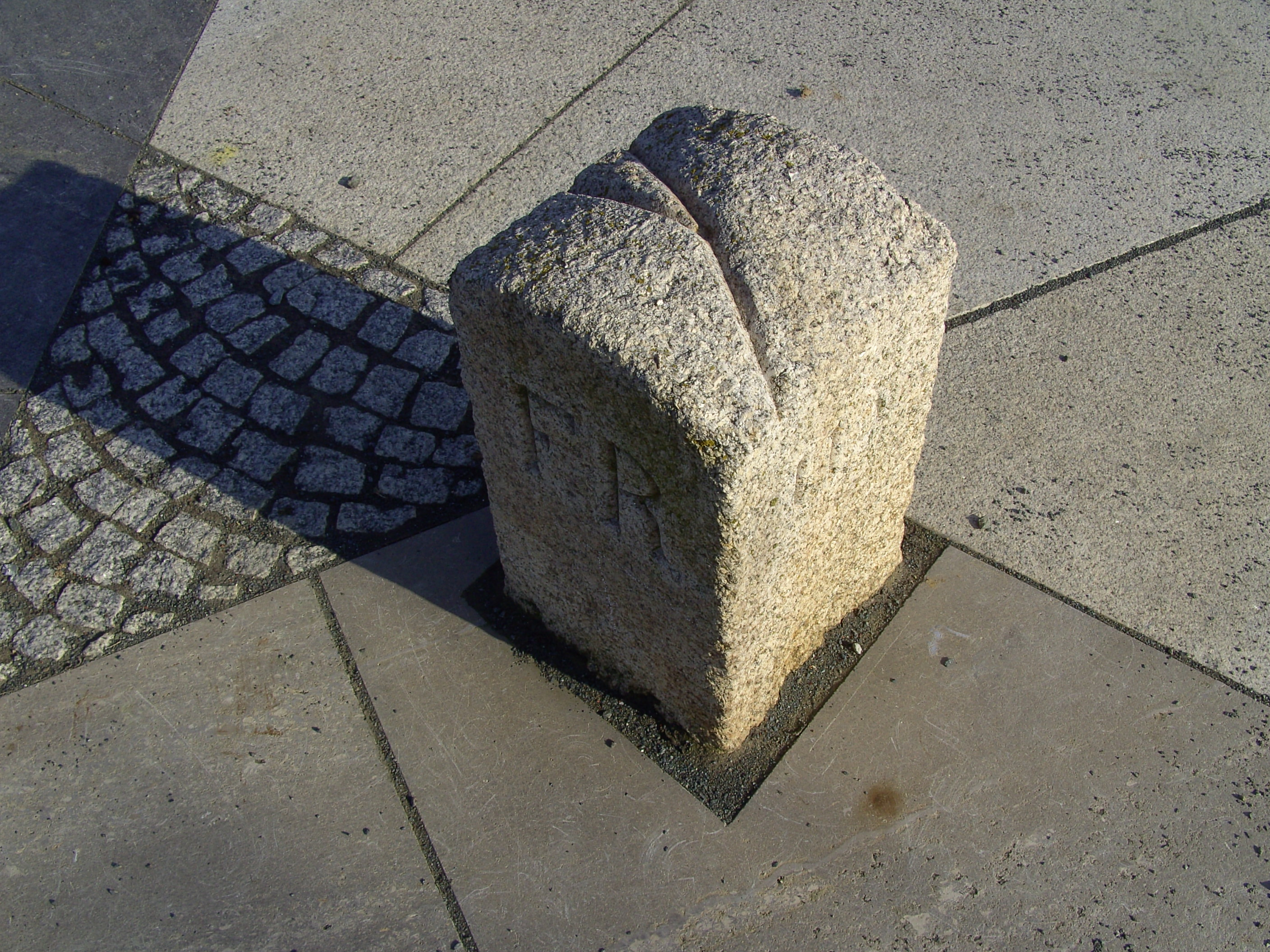 "Drei-Freistaaten-Stein", boundary marker at the tripoint of Bavaria, Saxony and Thuringia (three federated states of Germany)